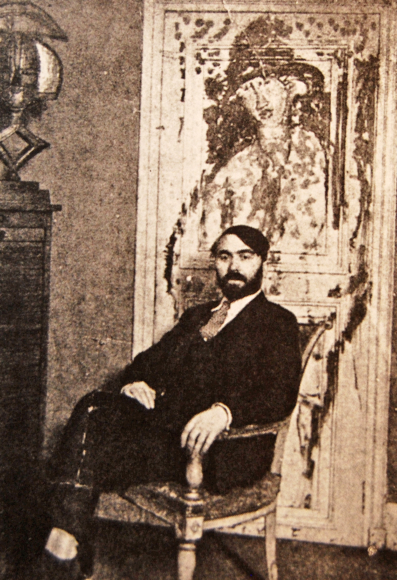 Leopold Zborowski, dealer of Amedeo Modigliani , image from the apartment placed in Rue Joseph Bara nº3 in Paris, in front of the door with Soutine painted by Modigliani, Circa 1918 (lower part is lost, upper in Private collection)